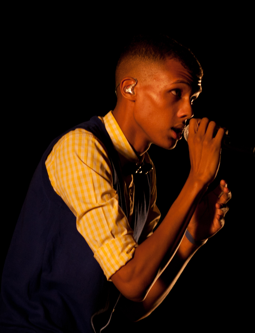 Follow me on facebook Twitter : @didyPhotography All the photographies I've made are now under CC0 (Creative Commons Zero) CC0 - learn more To the extent possible under law, Eddy BERTHIER has waived all copyright and related or neighboring rights to Stromae @ BSF 2011. This work is published from: France.